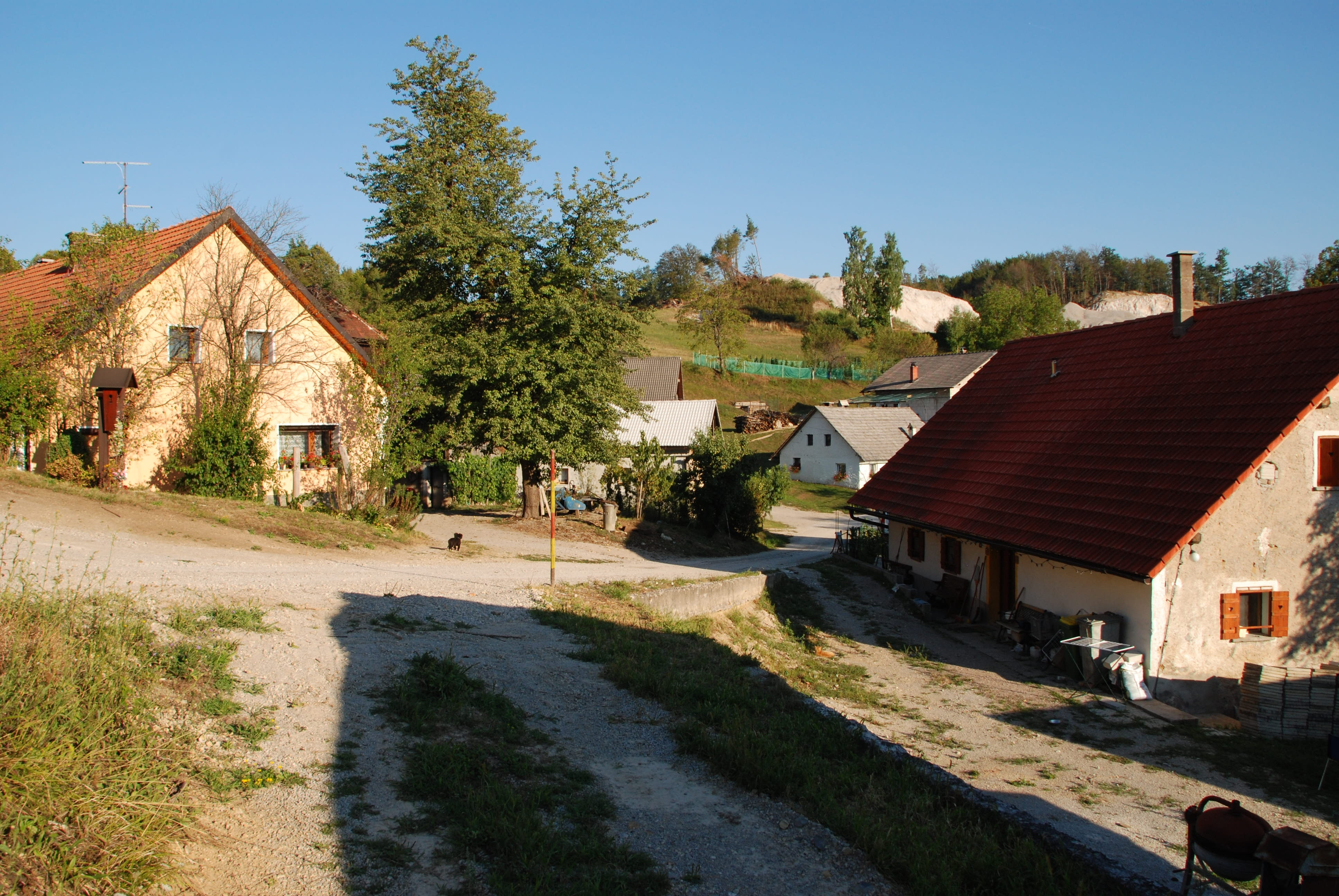 Gorenje Zabukovje, a hamlet of Zabukovje (Municipality of Šentrupert), southeastern Slovenia.